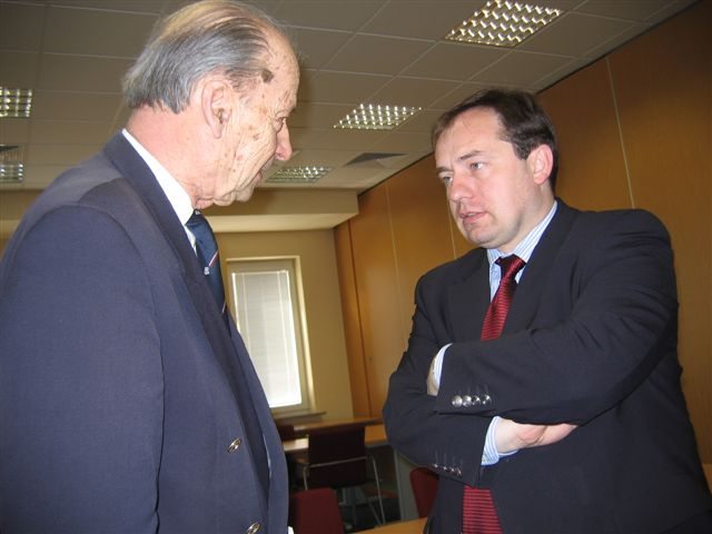 Andrzej Przewoźnik (b. 1963, d. 2010), Polish politician and Zbigniew Ścibor-Rylski (b. 1917), Polish combatant. Warsaw (Poland).